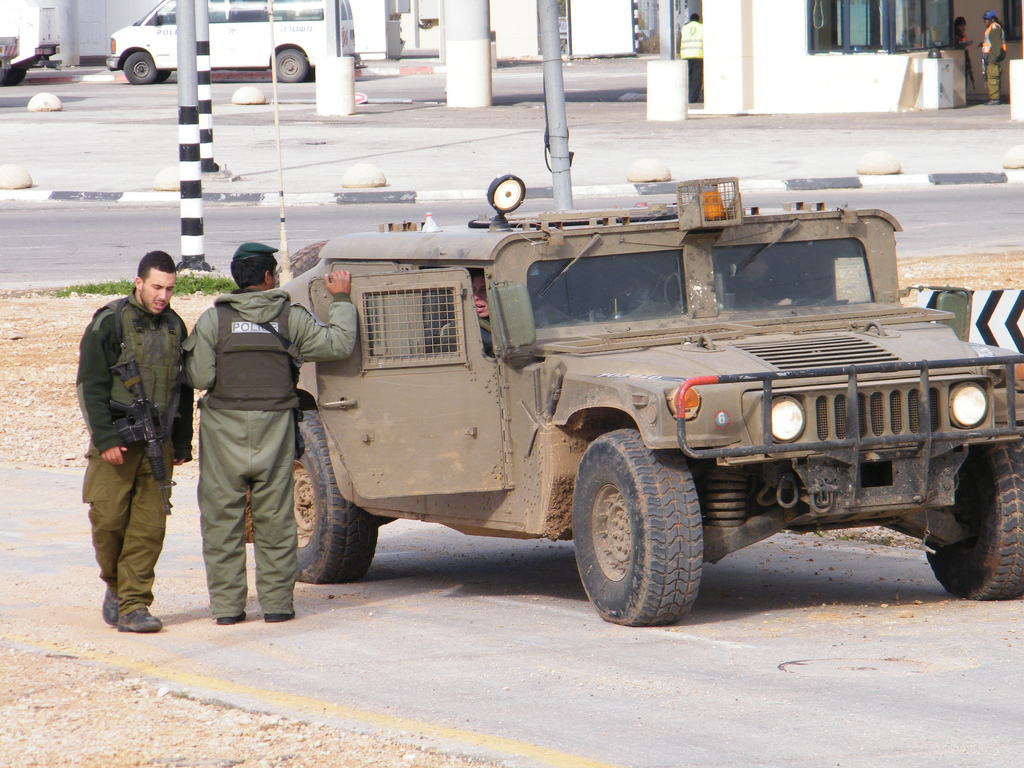 Israeli soldiers on high alert on January 1, 2009.